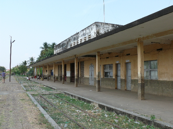 Train station in Battambang in Cambodia in March 2009.